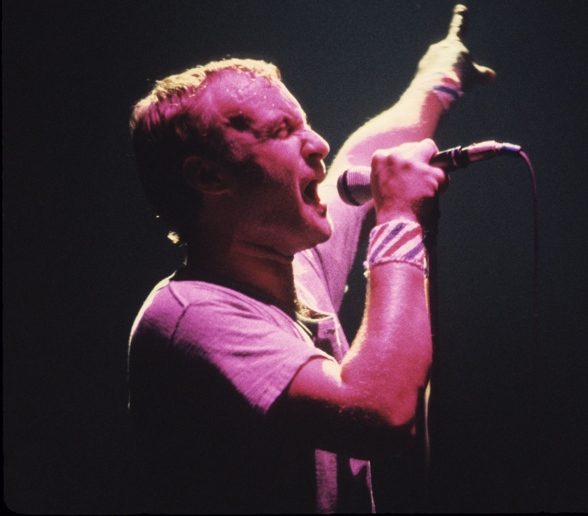 Genesis, Phil Collins, Strasbourg, October 1981